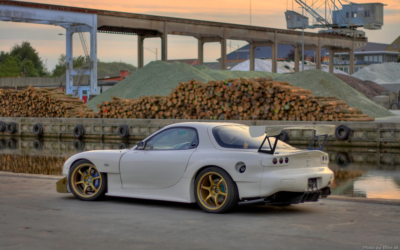 Mazda RX-7 RE Amemiya - styled by FEED More Photos here: [1]